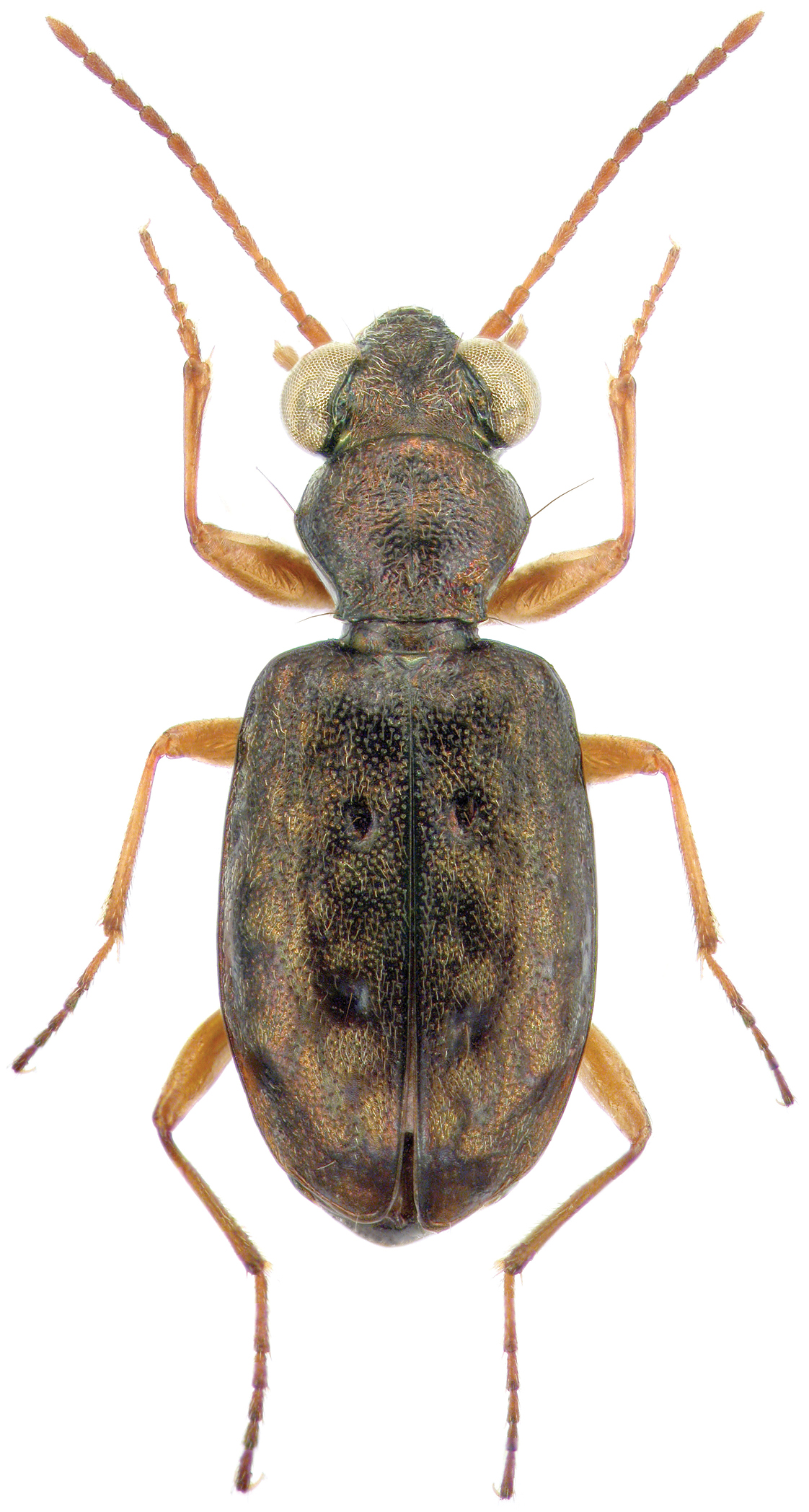 Asaphidion curtum curtum (Heyden). This adventive bembidiine was reported in the North American literature under the name Asaphidion flavipes (Linnaeus) until a study of the male genitalia showed that the specimens were in fact conspecific with the morphologically similar Asaphidion curtum. Asaphidion species are odd-looking bembidiines and Linnaeus originally associated them with tiger beetles probably because of their large eyes and absence of elytral striae.